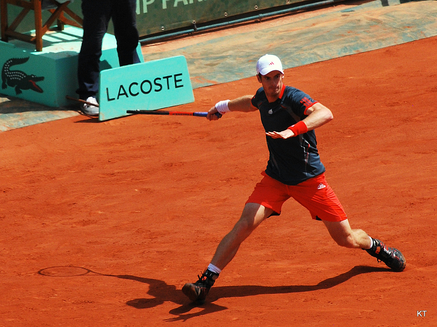 Andy Murray during his 2nd round match with Jarkko Nieminen. Murray won 1-6, 6-4, 6-1, 6-2. Day 5 of Roland Garros 2012.